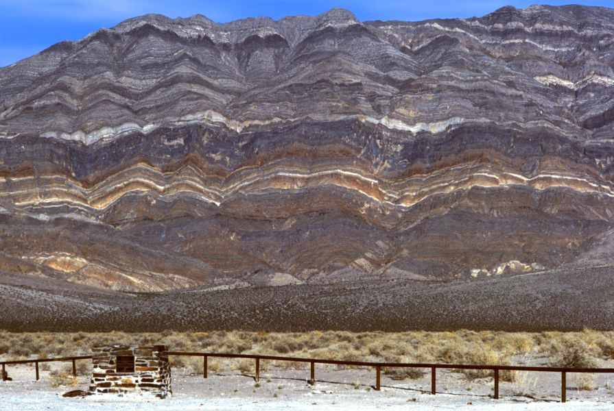 Cliffs in the Last Chance Range, California, as seen from the parking area at the Eureka Dunes in Eureka Valley.